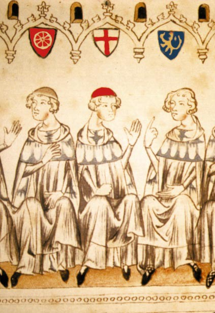 The "Seven Prince Electors" electing Henry VII, Holy Roman Emperor. The electoral princes, identified by the coat of arms above their heads, from left to right are the archbishops of Cologne, Mainz, and Trier, the count palatine of the Rhine (count of former Electorate of the Palatinate), the duke of Saxony, the margrave of Brandenburg, and the king of Bohemia. pen-and-ink miniature from the picture chronicle of Henry VII (Balduineum)